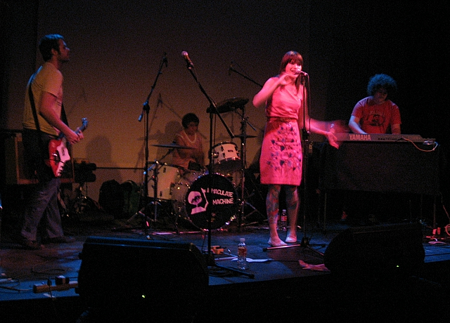 Australian indie pop group, the Grates, performing at Main Hall, Montreal on 24 June 2006